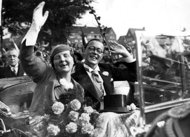 On occasion of their engagement crown princess Juliana and prince Bernhard make a tour through Amsterdam in a coach and wave happily. September 1936.